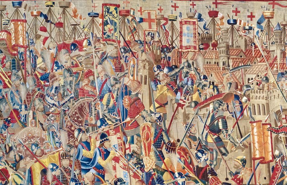 The Portuguese army attacking Asilah in 1471. Detail of a taprestry produced in Belgium for the King of Portugal.